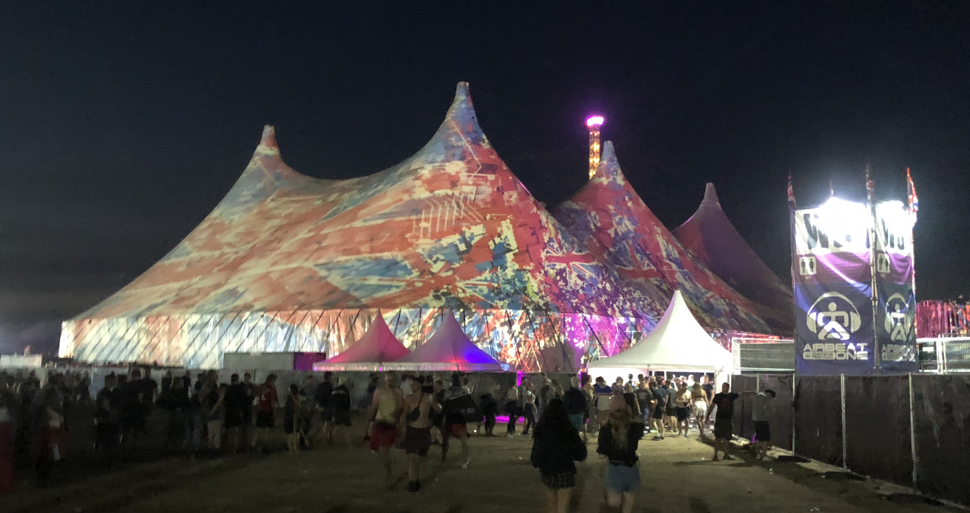 The Arena stage at Airbeat One Festival 2018 representing Jungle Terror and Trance.